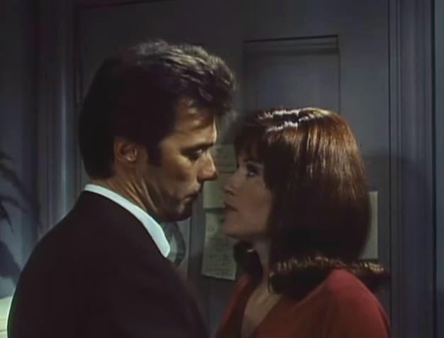 Clint Eastwood & Susan Clark in Coogan's Bluff - trailer (cropped screenshot)